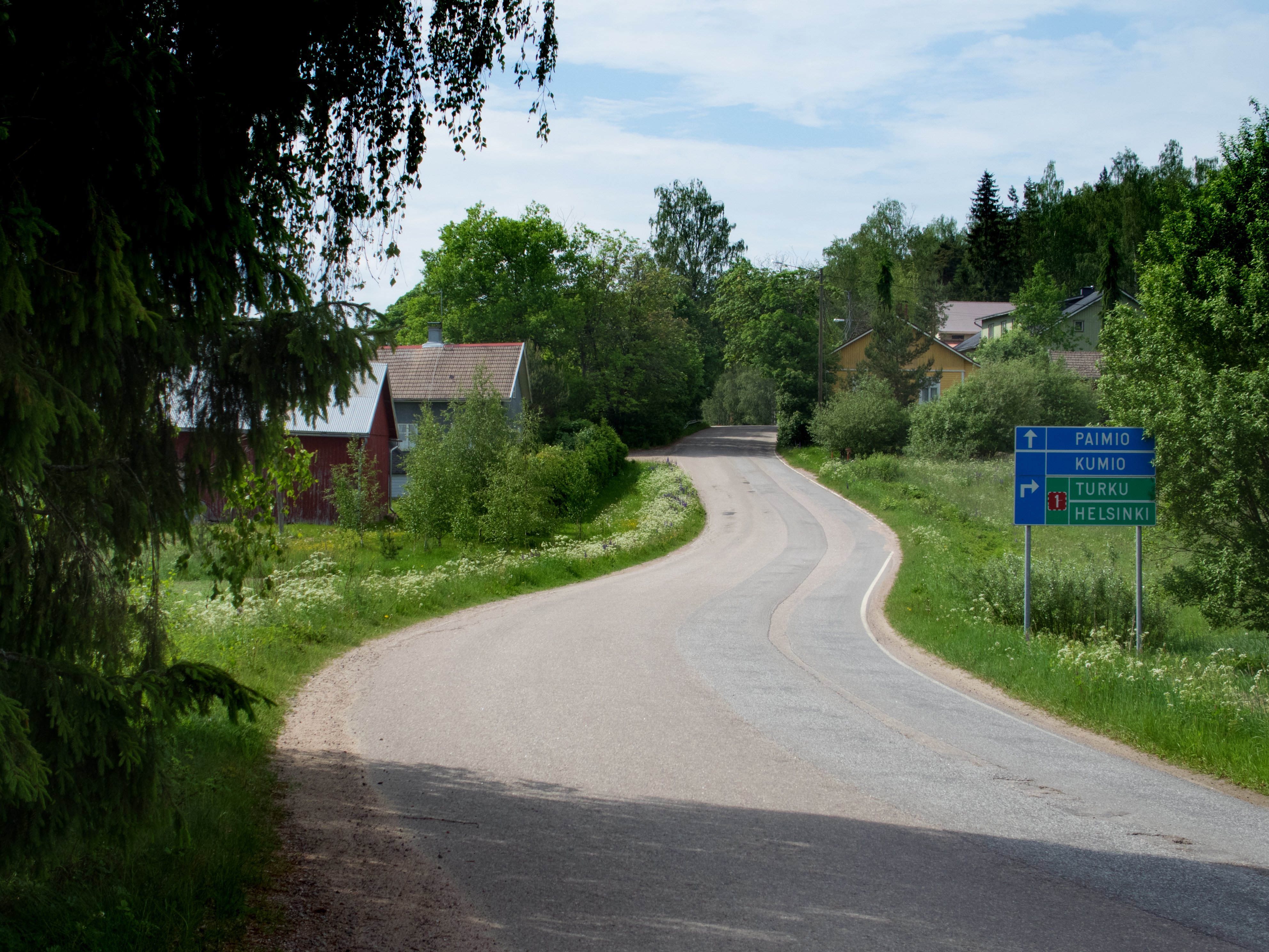 Entering Hajala village in Halikko, Salo, Finland, along road 2351 from the east. June 2014.